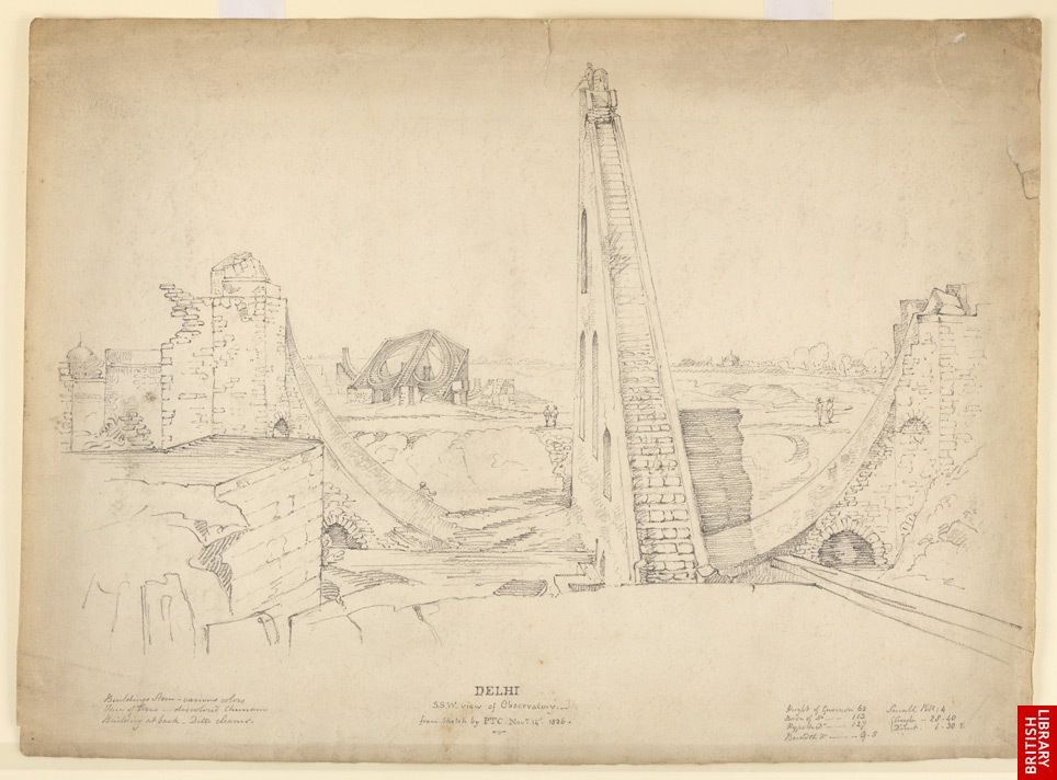 Jantar Mantar, Delhi, 14th November 1826.